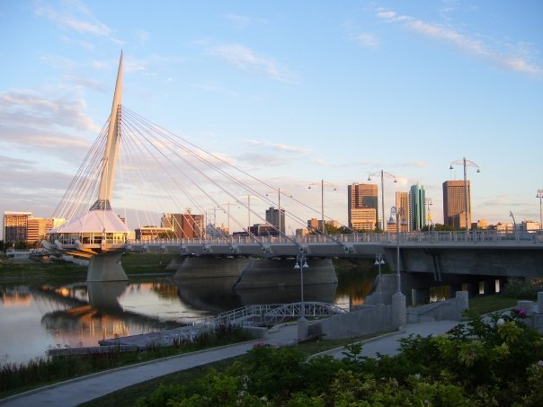 Esplanade Riel and Downtown Winnipeg from St. Boniface.